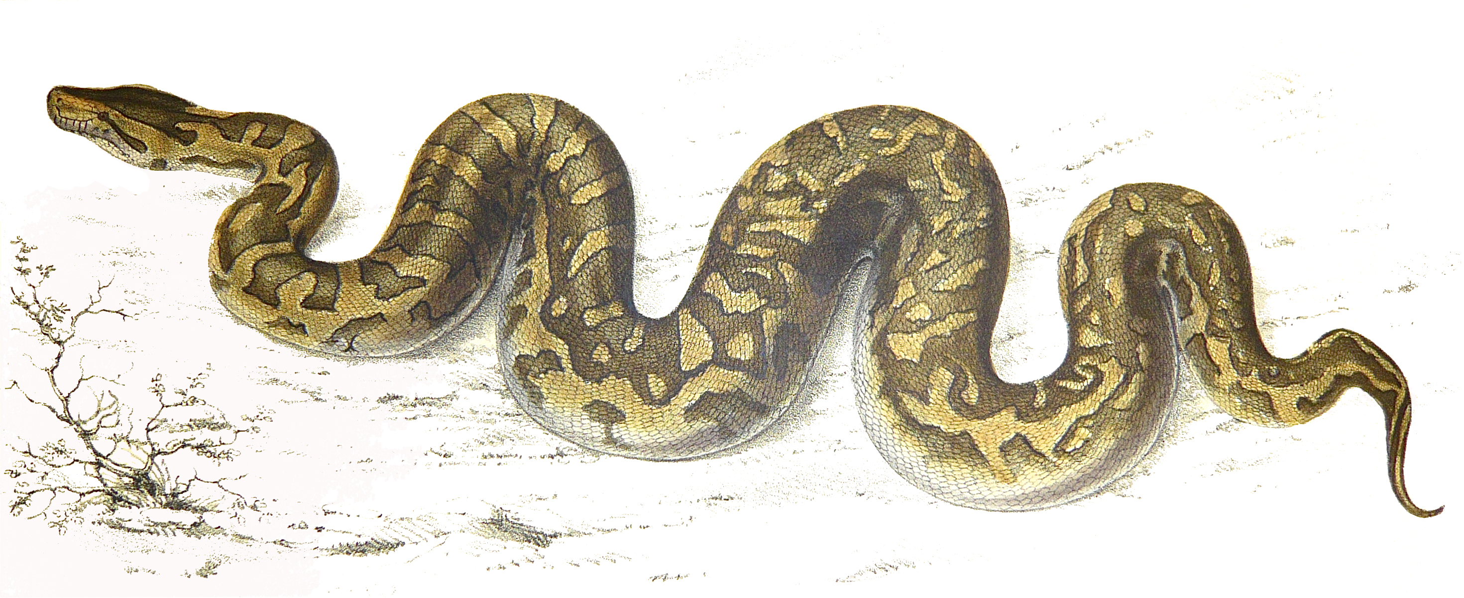 PYTHON NATALENSIS (Southern African Python) (Reptilia Plate 9) in A. Smith: Illustrations of the zoology of South Africa, Reptilia. Smith, Elder, and Co., London 1840